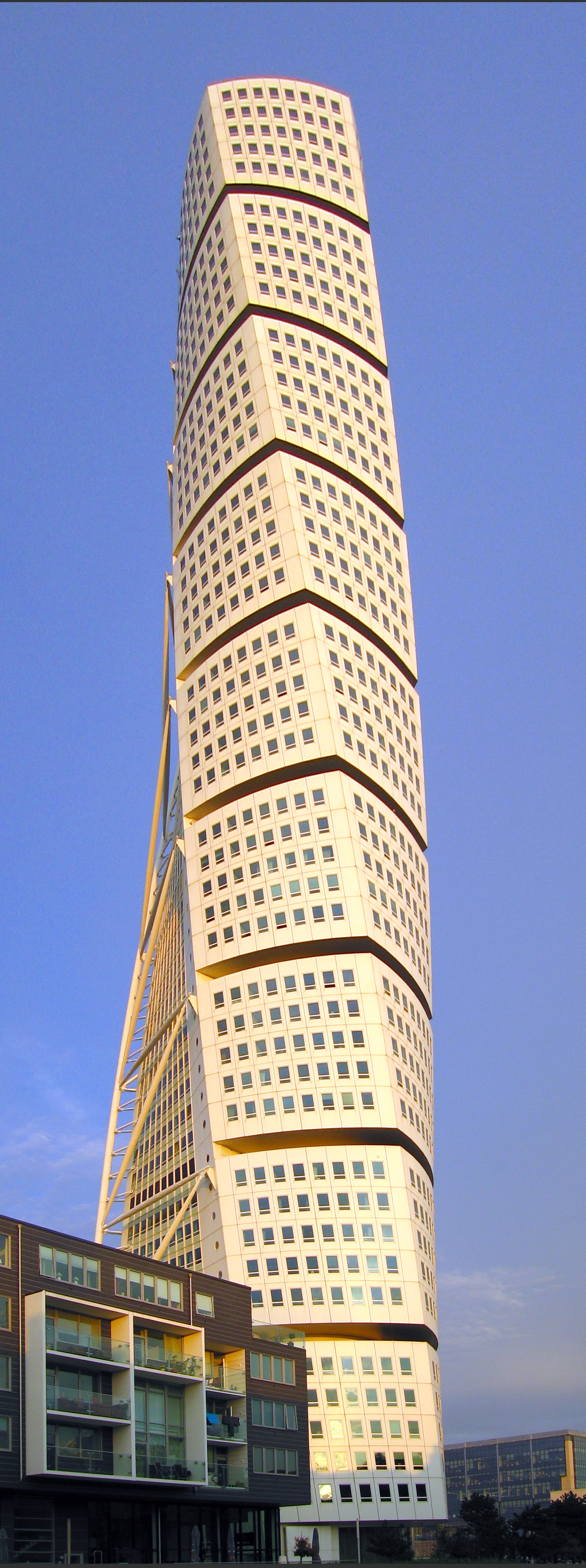 Turning Torso (Malmö)